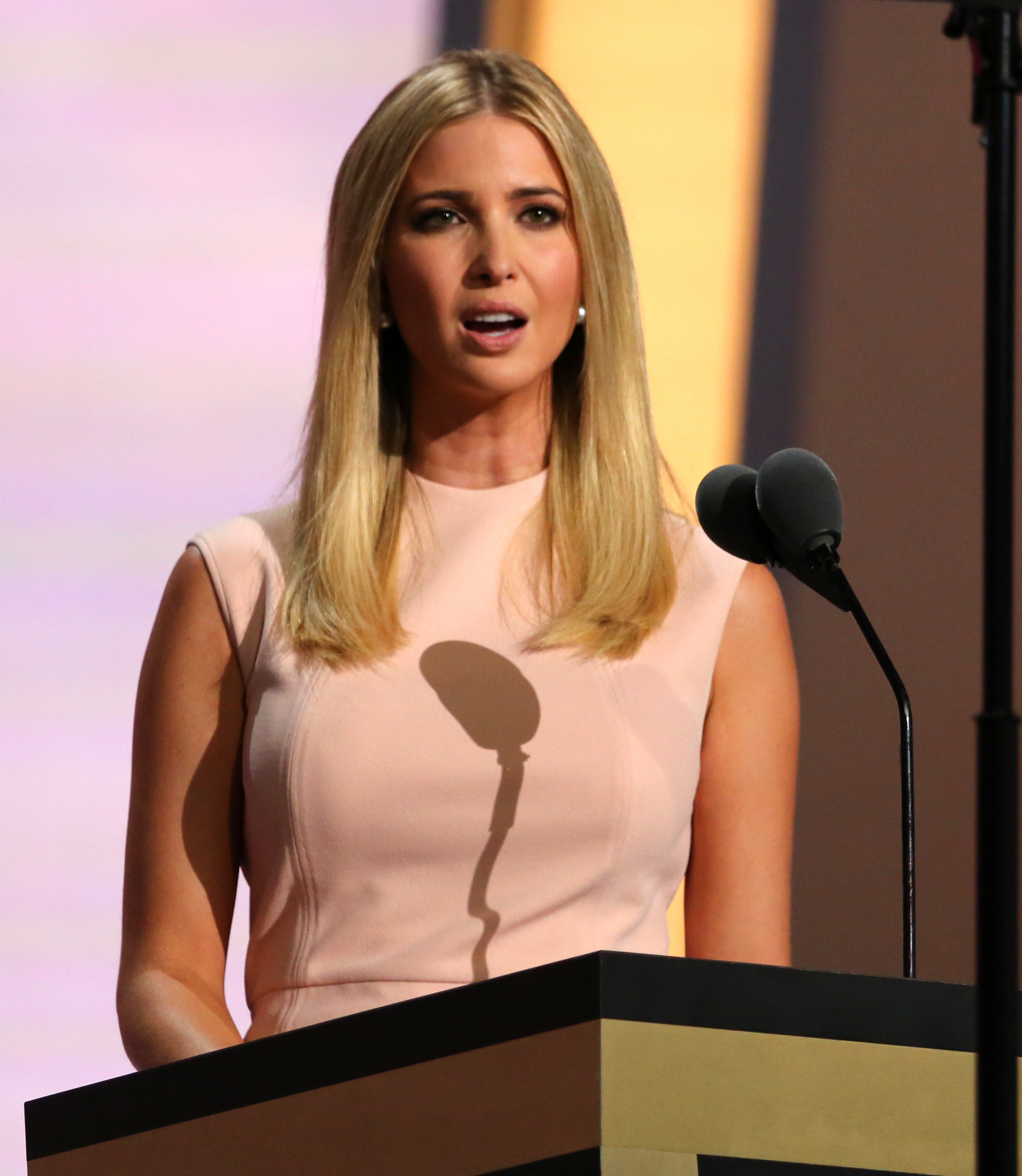 A businesswoman and former model, Ivanka Trump's speech was peppered with stories from her childhood. She says Donald Trump has made wage equality a practice in his company throughout his entire career. (A. Shaker/VOA)